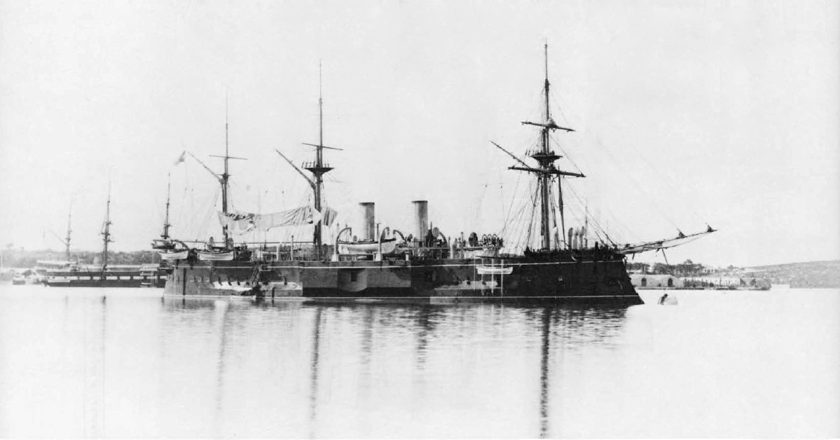 SMS Tegetthoff